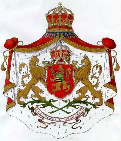 This image depict the Coat of arms from Bulgaria as a Kingdom from 1908. It is copied from the English wikipedia and created by Theo van der Zalm.